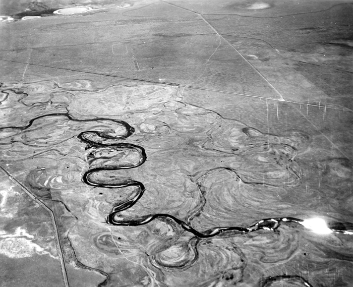 Meanders in Laramie River. Albany County. 1949. Digital File:bjr00008 ID. Balsley, J.R. 8 Original found at [1] using keywords "Laremie" (sic), and "River."